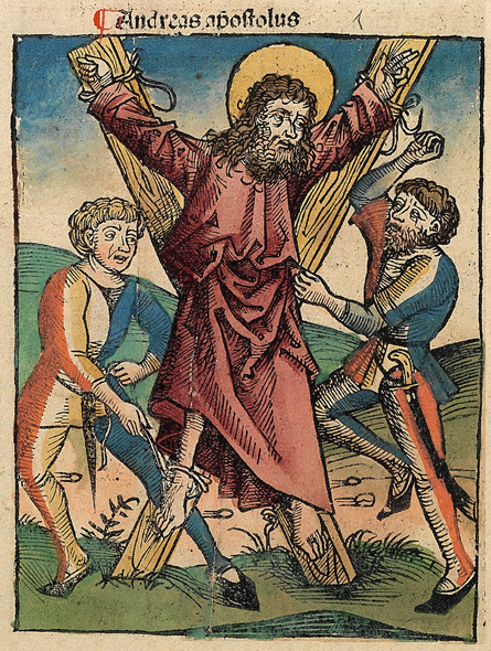 This is a part of a scan of an historical document: Title: Schedelsche Weltchronik or Nuremberg Chronicle